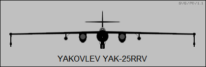 Front-view silhouette of the Yakovlev Yak-25RV